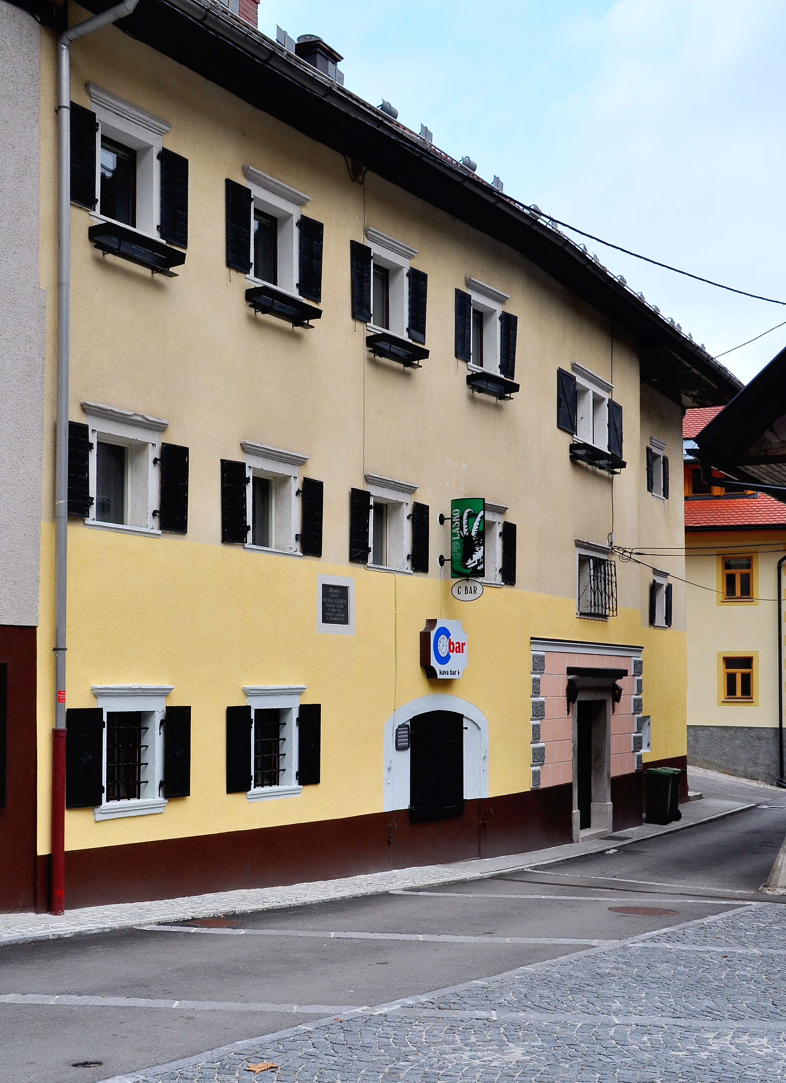 Poet Kristina Šuler`s birthplace at Kropa, community Radovljica, Gorenjska, Slovenia